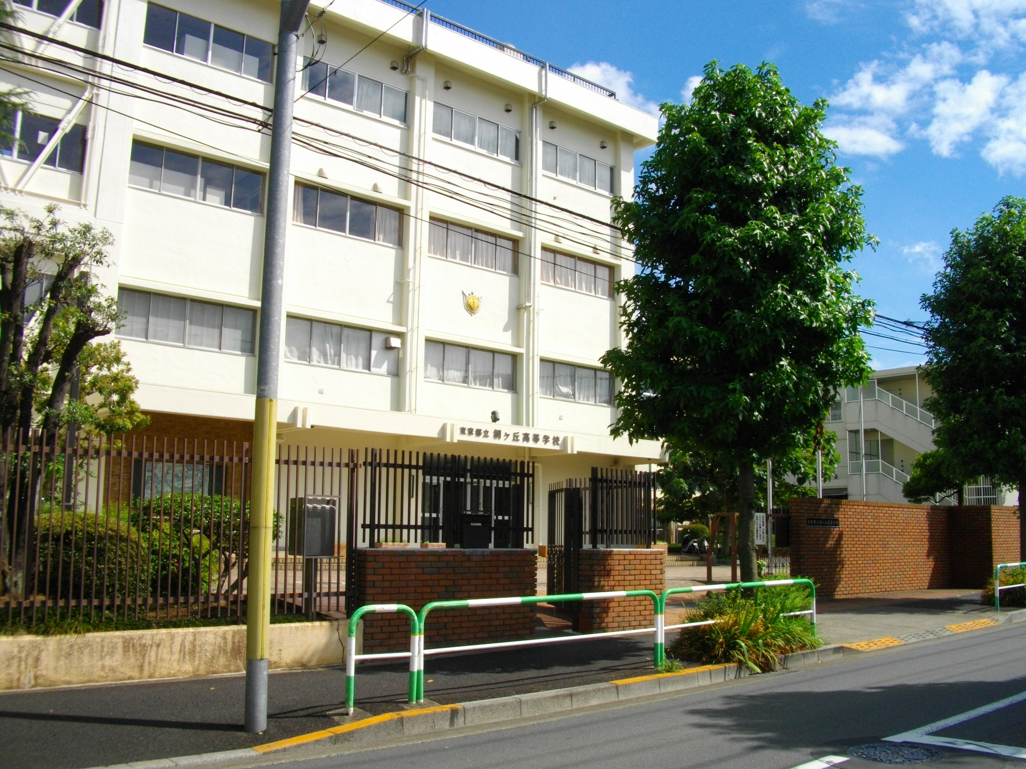 Tokyo Metropolitan Kirigaoka High School